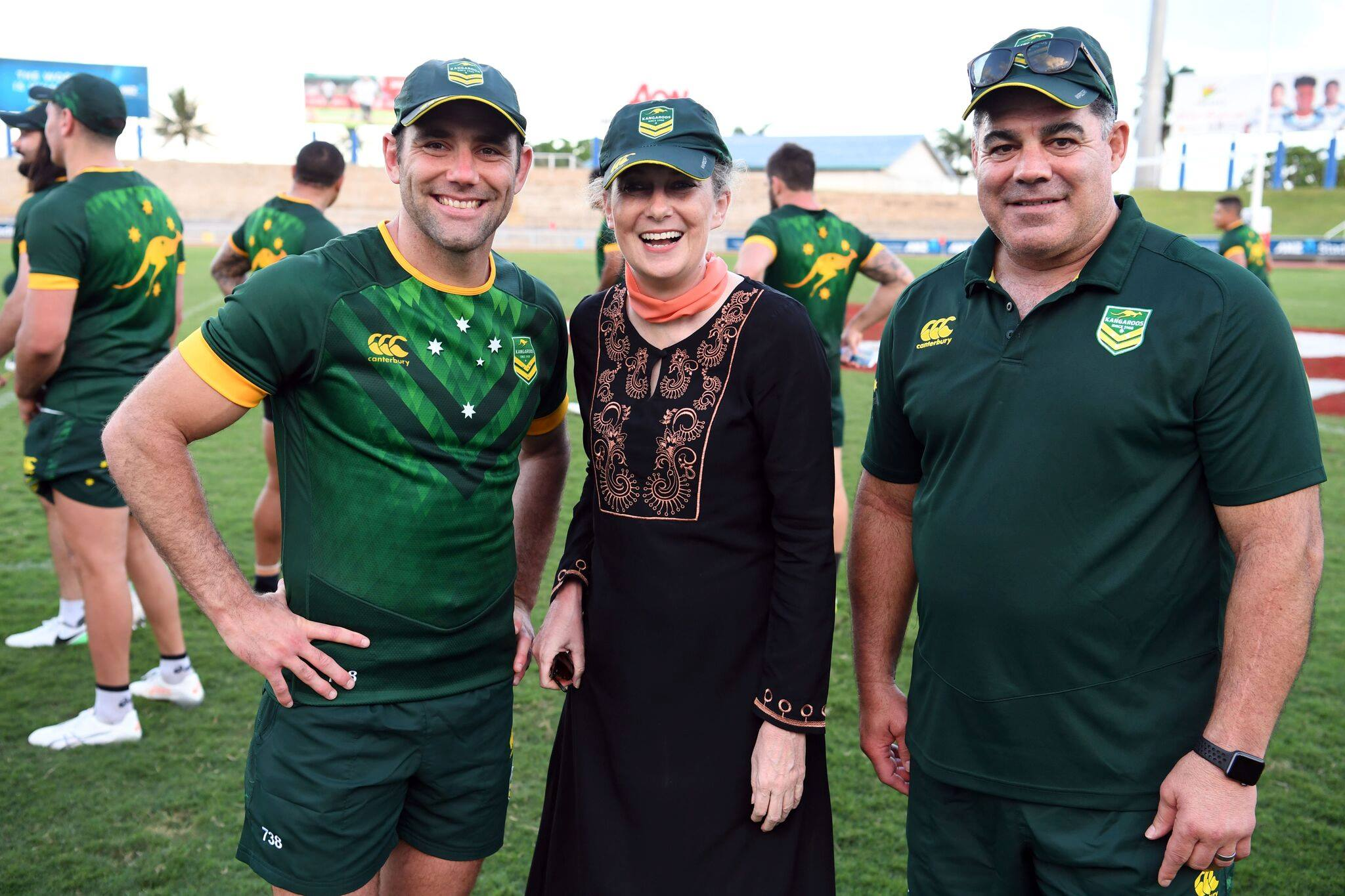 Australia and Fiji’s close sporting ties are on display in Suva. The reigning Rugby League world champions, the Australian Kangaroos, have spent the afternoon with fans as they prepare for the Pacific Tri-Nations test matches against the Fiji Bati and PNG Kumuls.